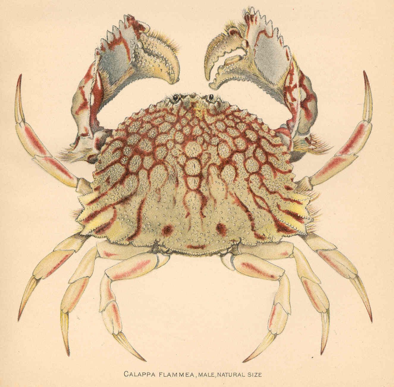 Calappa flammea, Male.. . Subject: Crabs, Calappa Tag: Shellfish